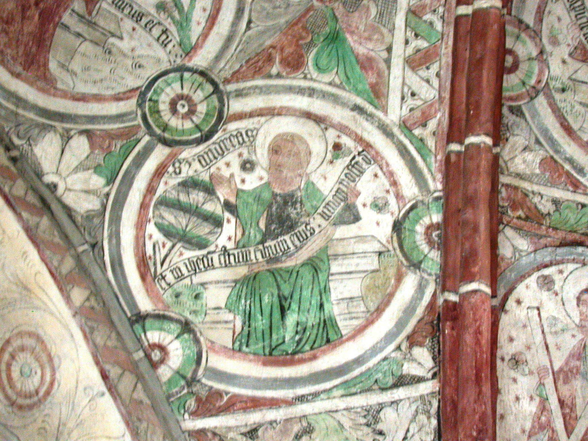 Örberga church, Vadstena, Sweden. Photo by Riggwelter, July 20, 2006.